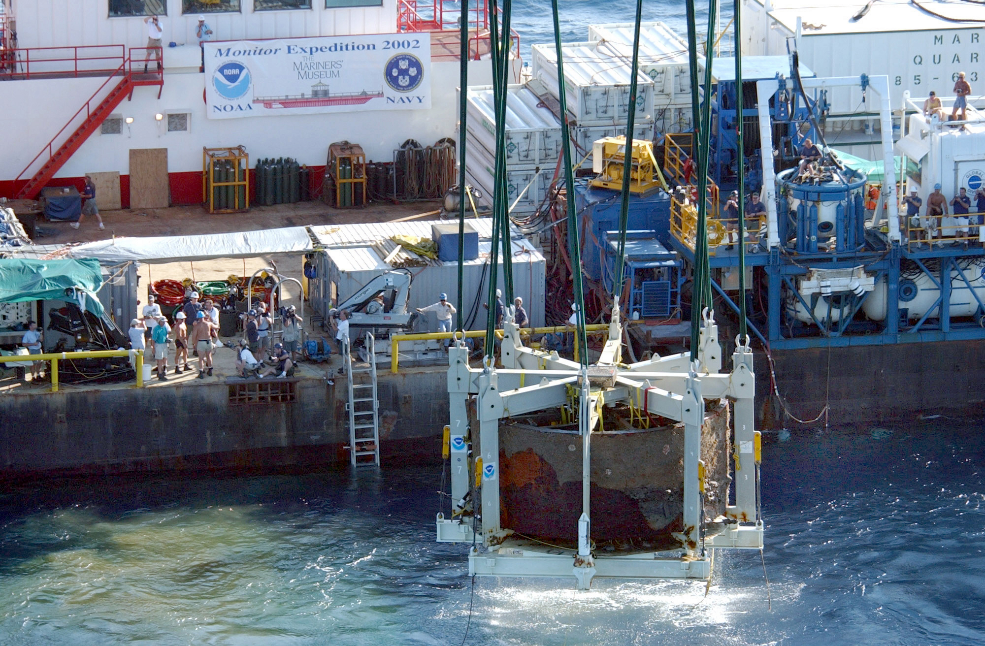 Off the coast of Cape Hatteras, N.C. (Aug. 5, 2002) -- The revolving gun turret from the civil war era “Ironclad” ship USS Monitor is lifted from the ocean floor, and placed onto the derrick barge “Wotan”. U.S. Navy divers assigned to Mobile Diving and Salvage Unit 2 (MDSU-2) provided expert deep-sea salvage crews to assist the National Oceanic and Atmospheric Administration (NOAA) to recover the ship’s gun turret, 11-inch Dahlgren cannons, and other artifacts from the historic vessel. Since its designation as our nation's first marine sanctuary in 1975, the Monitor has been the subject of intense investigation. The turret was the first revolving gun of its kind and will eventually be on public display in the Mariners’ Museum in Newport News, Va. The famed warship sank 240 feet to the ocean floor during a heavy storm off Cape Hatteras on Dec. 31, 1862. Four officers and 12 men were lost. U.S. Navy photo by Photographer’s Mate 1st Class Martin Maddock. (RELEASED) For more information go to